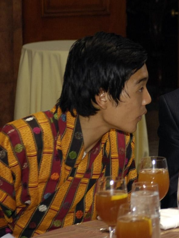 Kicking off the Festival, NASA Deputy Administrator, the Honorable Shana Dale, shares lunch with the Prince of Bhutan, HRH Prince Jigyel Ugyen Wangchuck, and the acting head of the Smithsonian Institution, Cristian Samper.